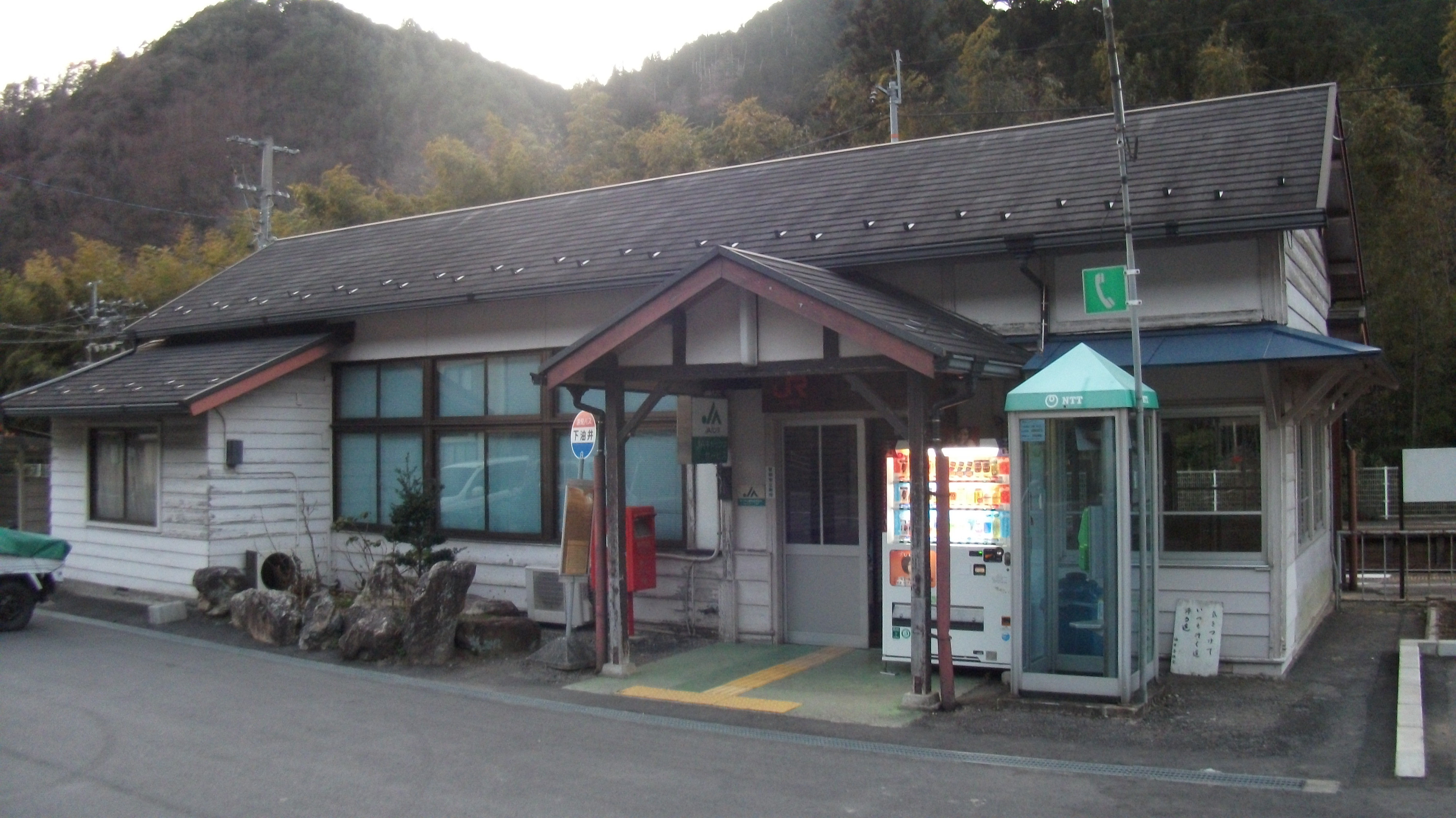 Shimoyui Station on Takayama Main Line